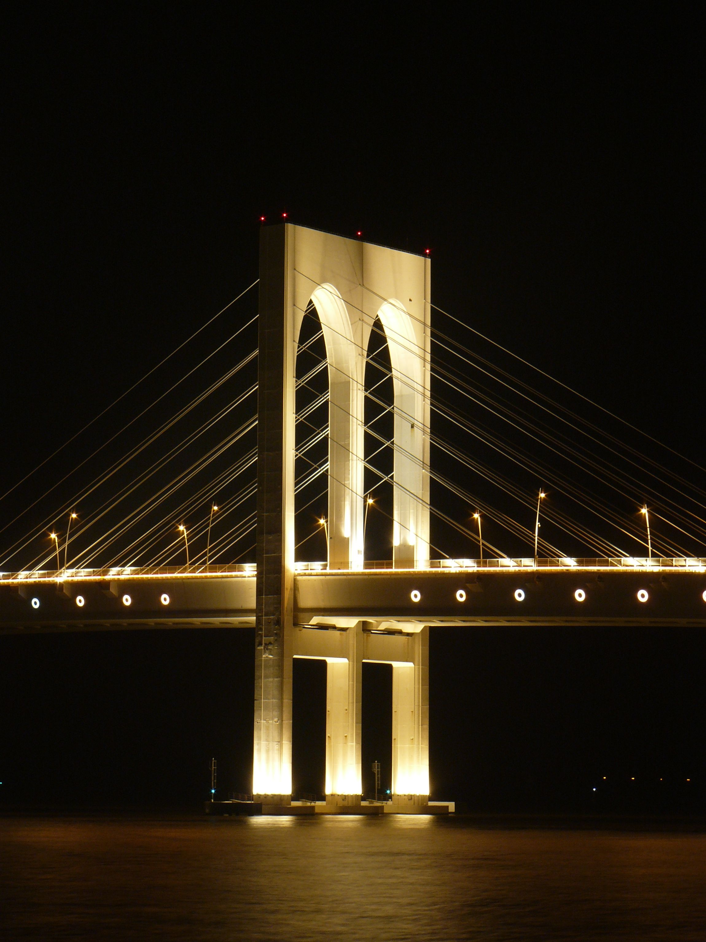 Sai Van Bridge, Macau